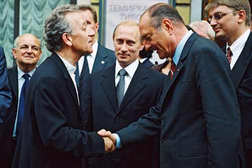 ST PETERSBURG. President Putin with his French counterpart, Jacques Chirac, and Russian orchestra conductor Yury Temirkanov outside the St Petersburg Philharmonic.